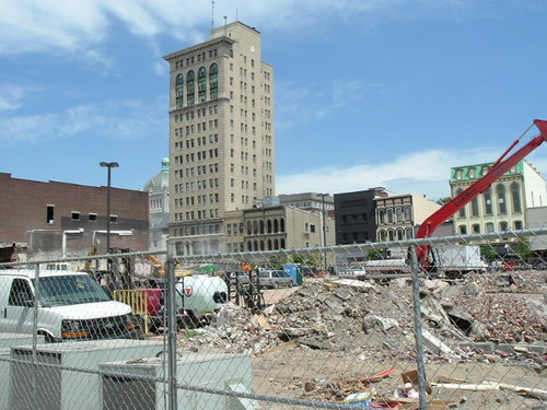 Site of Centre Point